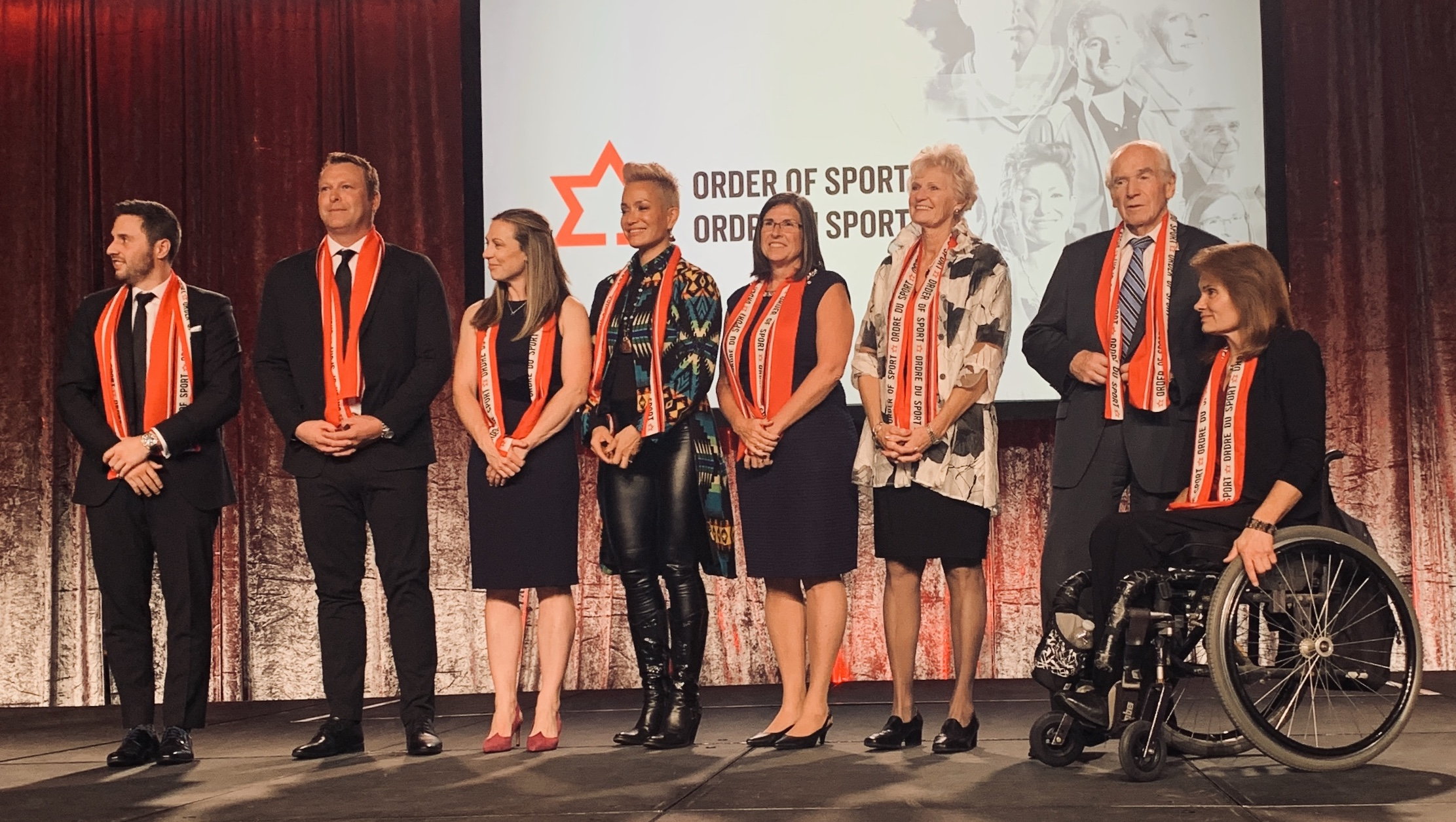 2019 is the first year that Athletes and Builders inducted into Canada's Sports Hall of Fame received the Order of Sport award, Canada's highest sporting honour, for both their sports accomplishment and their community spirit. Pictured are the Inaugural Hall of Famers Alex Bilodeau, Martin Brodeur, Jayna Hefford, Waneek Horn-Miller, Vicki Keith, Guylaine Bernier, Doug Mitchell, Colette Bourgonje